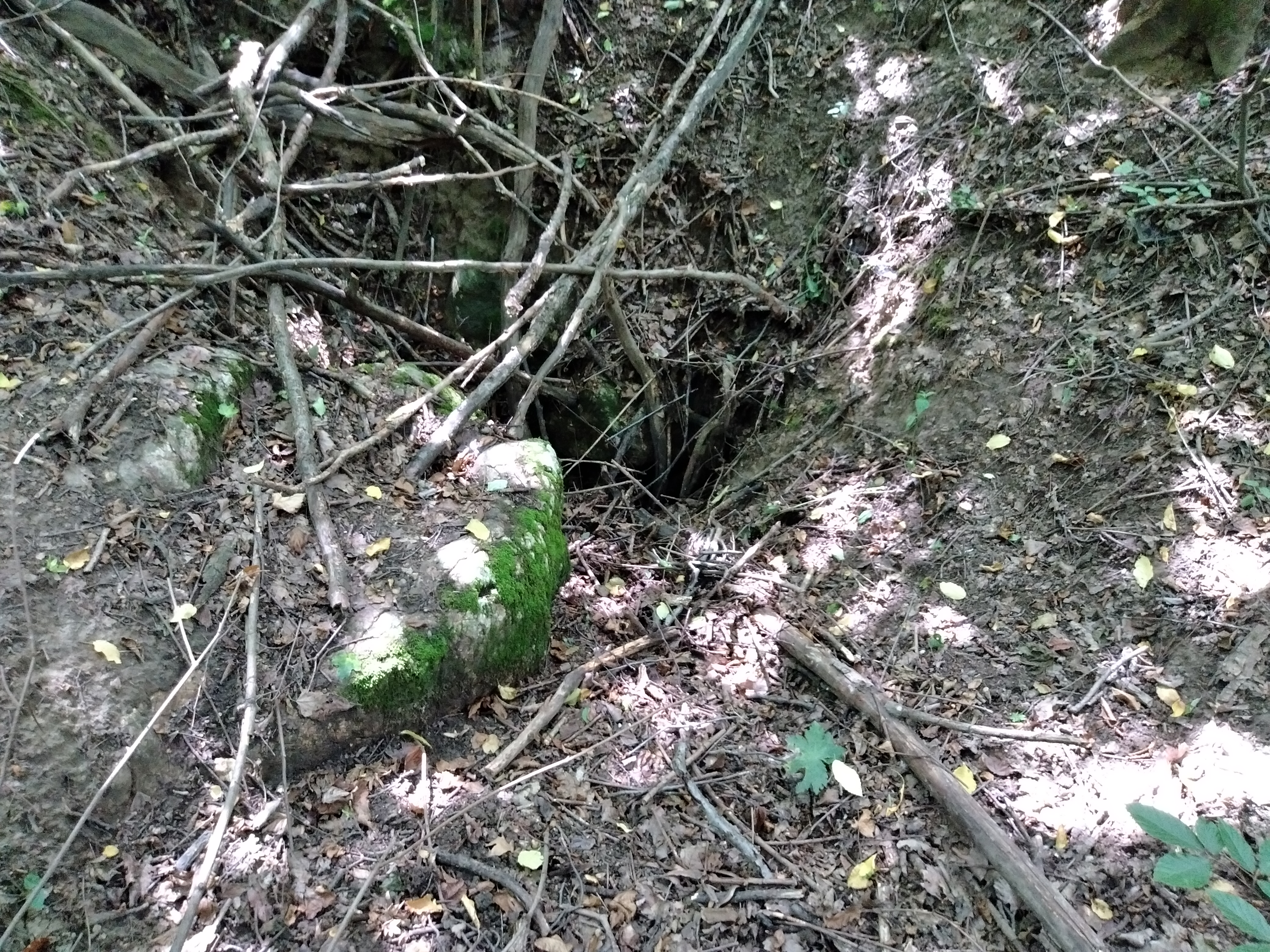 Entrance of Szőlősi Arany Cave in Vértesszőlős.